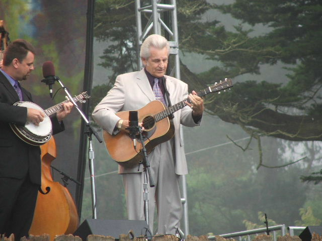 Hardly Strictly Bluegrass Festival 2005. Golden Gate Park - San Francisco, CA. Photo by Ron Baker.